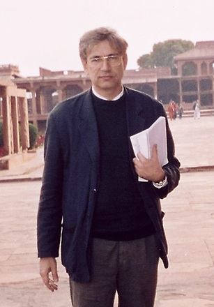 Orhan Pamuk, turkish novelist.